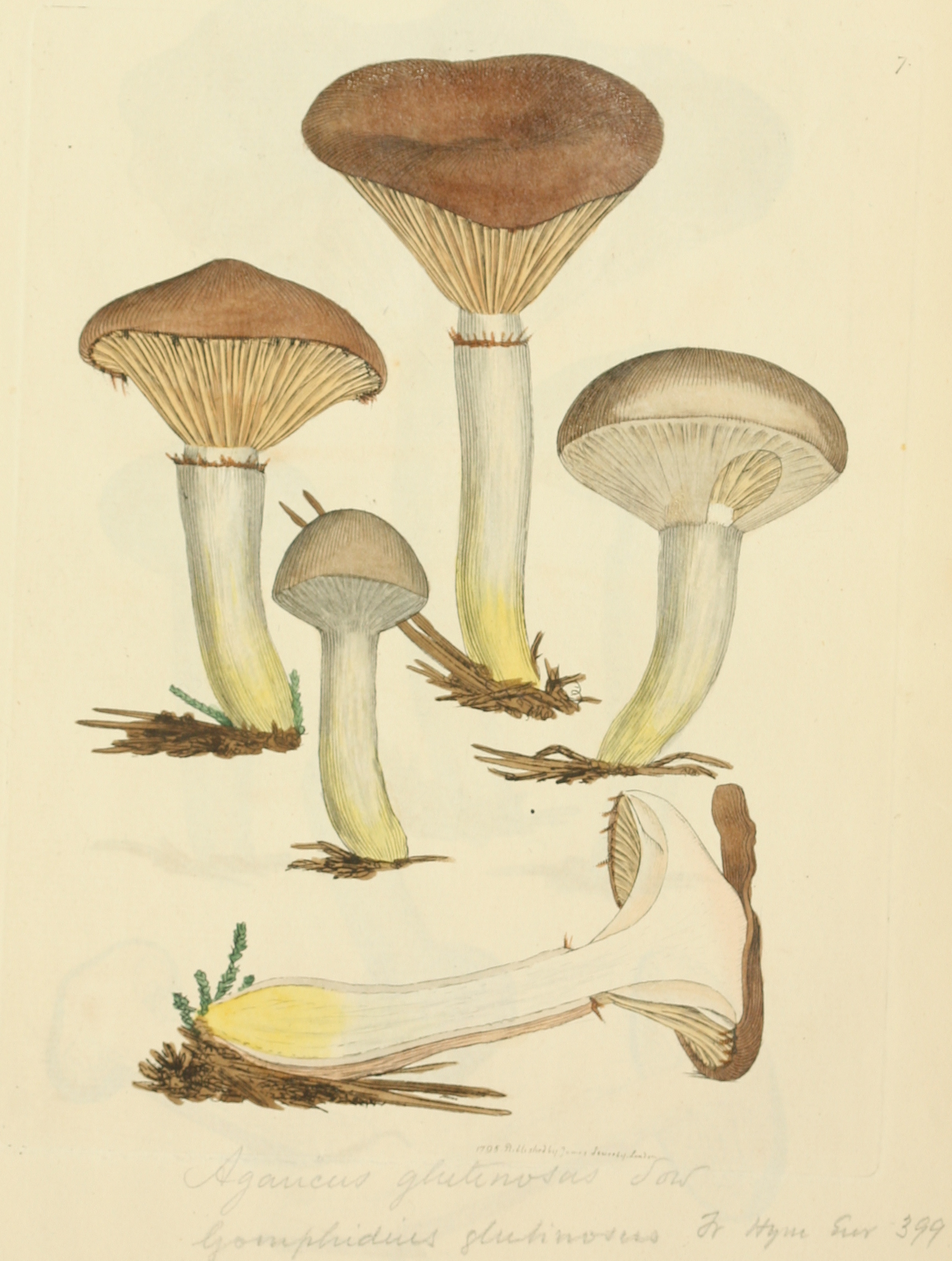 This is a plate from James Sowerby's Coloured Figures of English Fungi or Mushrooms.